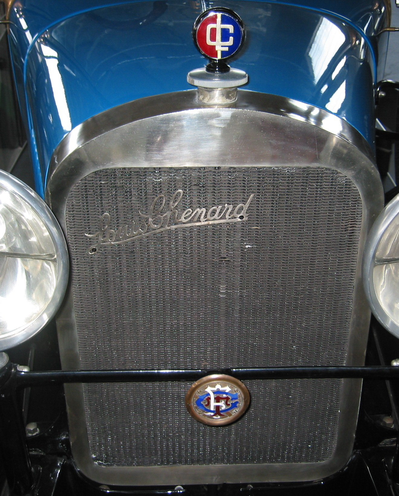 Emblem Louis Chenard